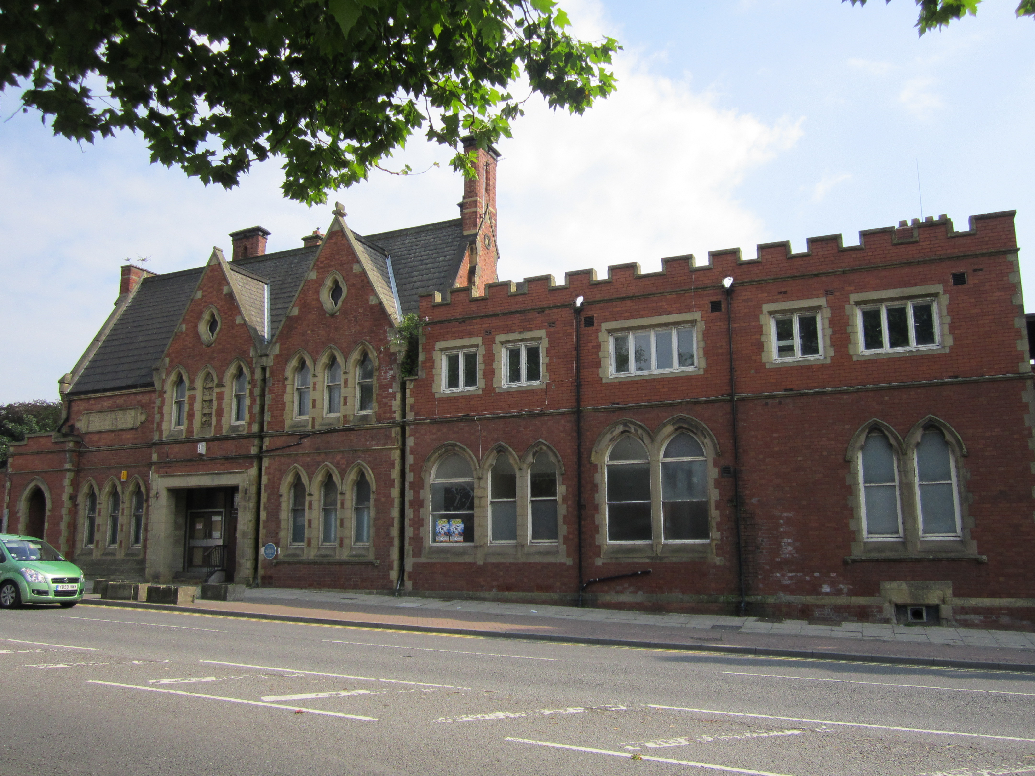 Former Pontefract General Infimary, Southgate, Pontefract, West Yorkshire, England.